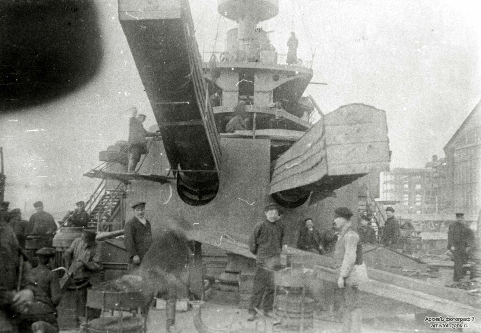 Orel under construction, c. 1903